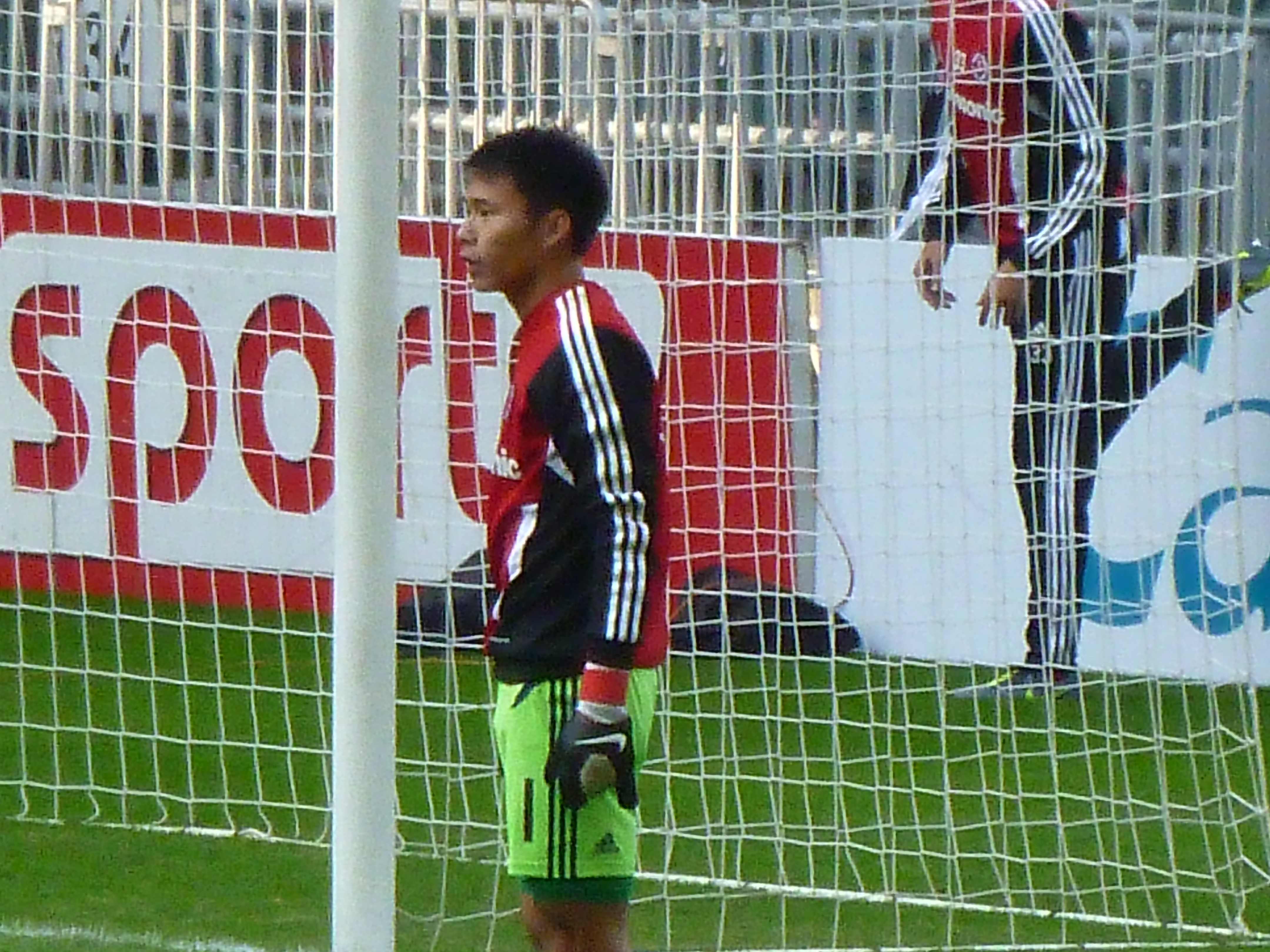 Yapp Hung Fai (25 Dec 2011 Hong Kong Senior Challenge Shield semi-final 2nd round South China vs TSW Pegasus at Hong Kong Stadium)